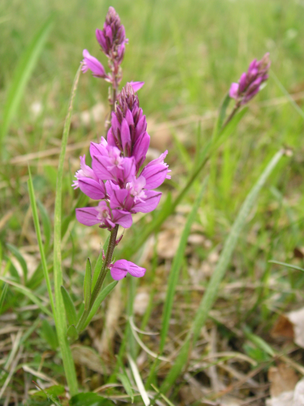 Polygala comosa